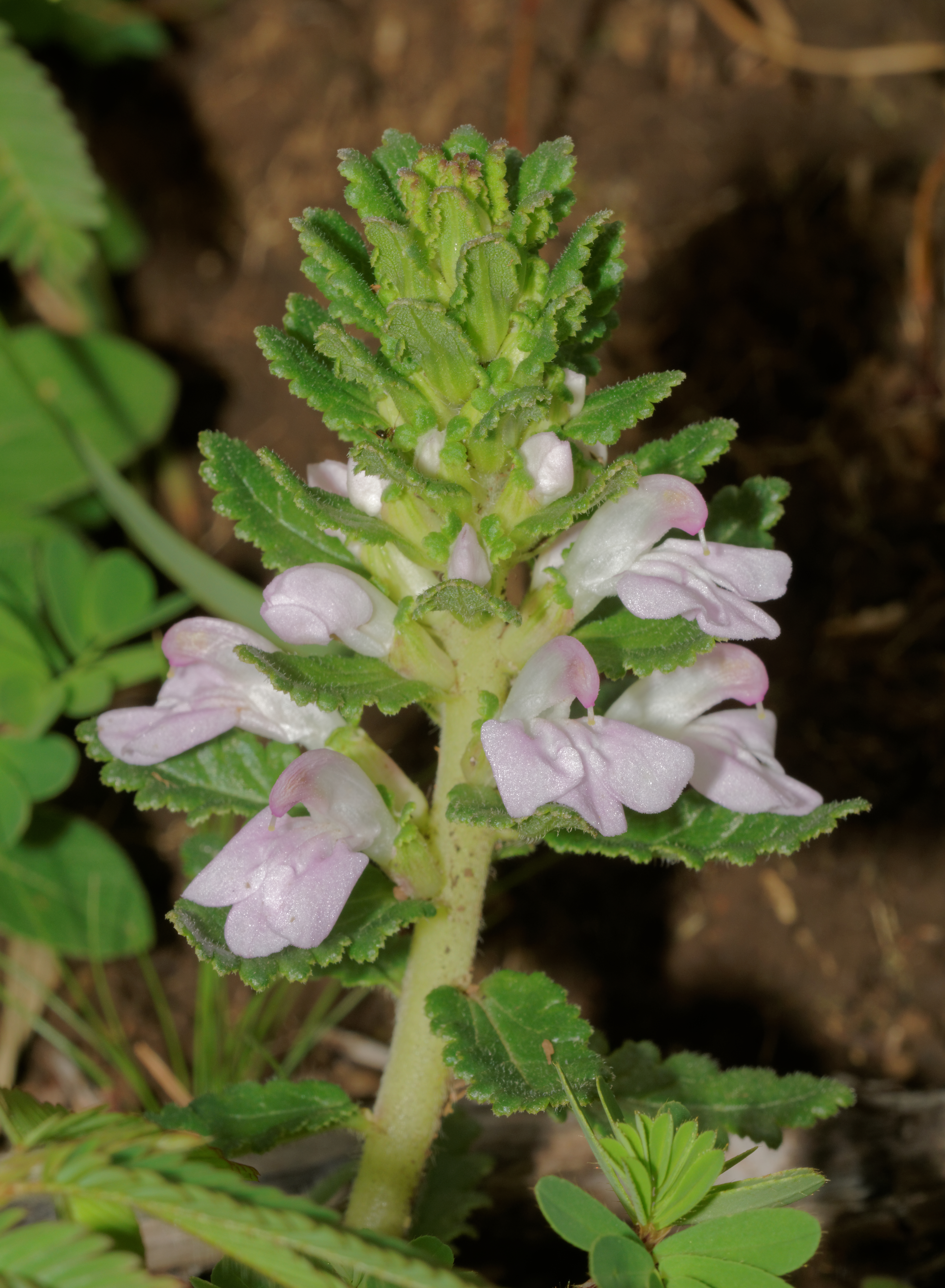 Pedicularis zeylanica, Ceylon Lousewort, is a weak stemmed semi-parasitic herb found in India and in Sri Lanka. (ID: Indian Flora)